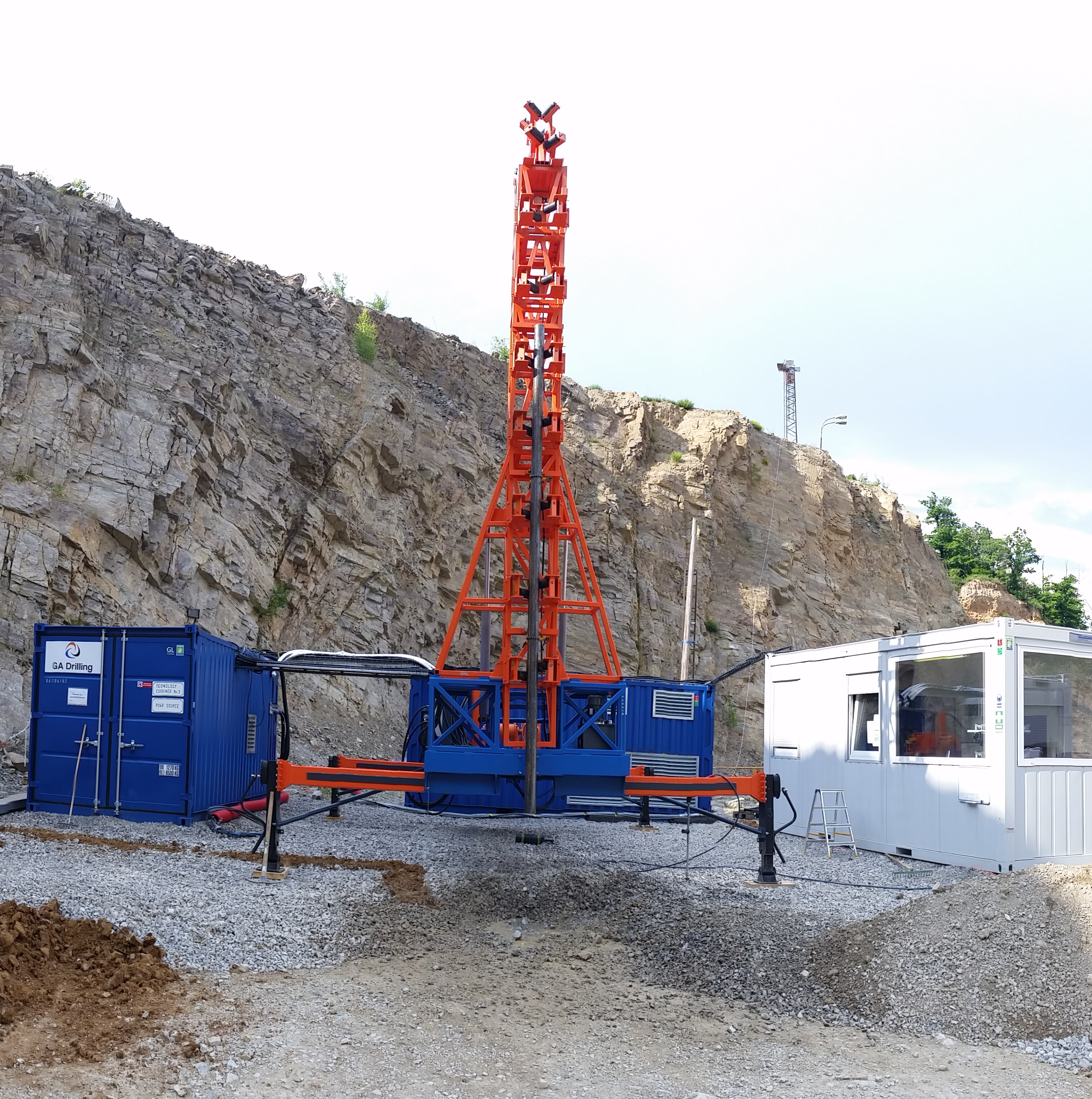 Drilling rig of GA Drilling for PLASMABIT technology testing